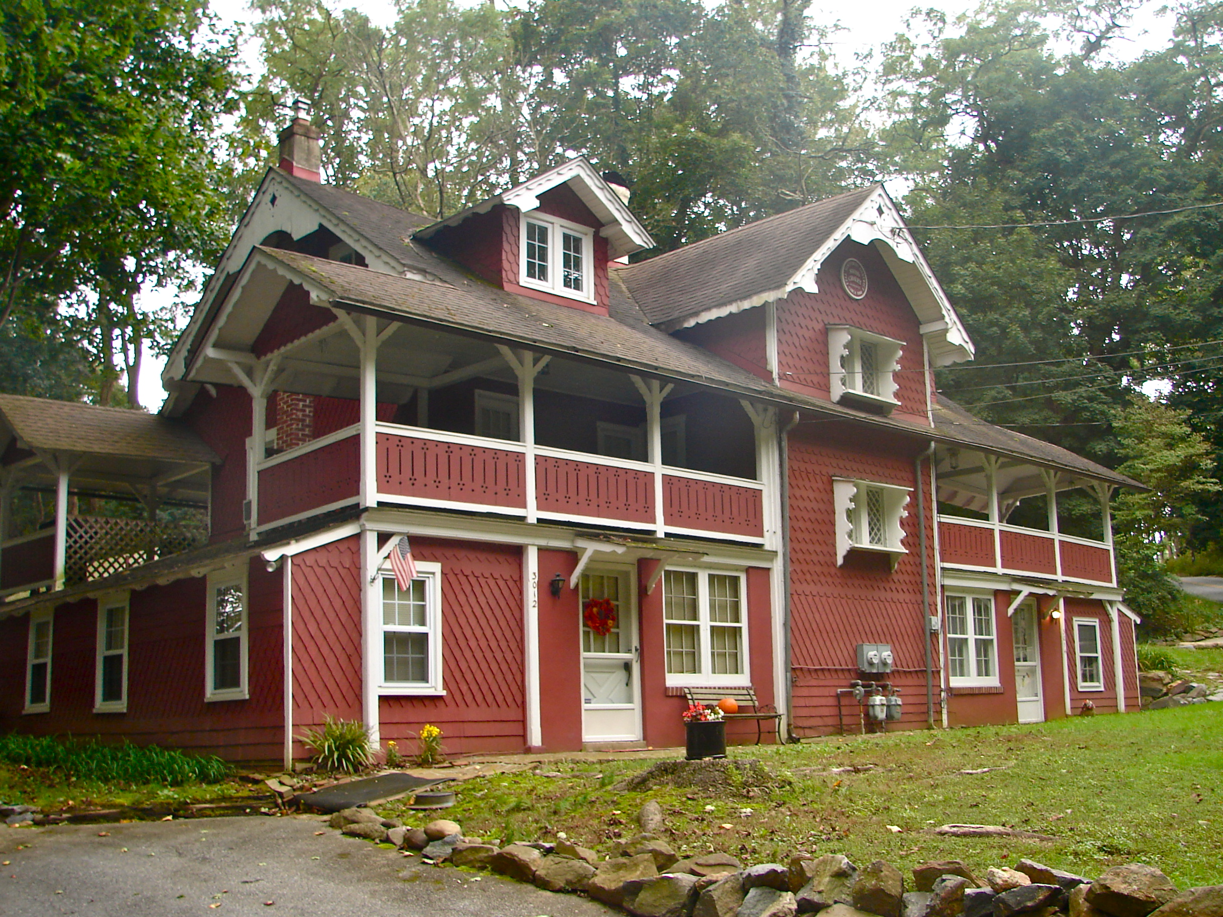 "Swiss house" in Fell Historic District on the NRHP since June 16, 1983. At Faulkland Rd. and New Fell's Lane, near Wilmington, Delaware.